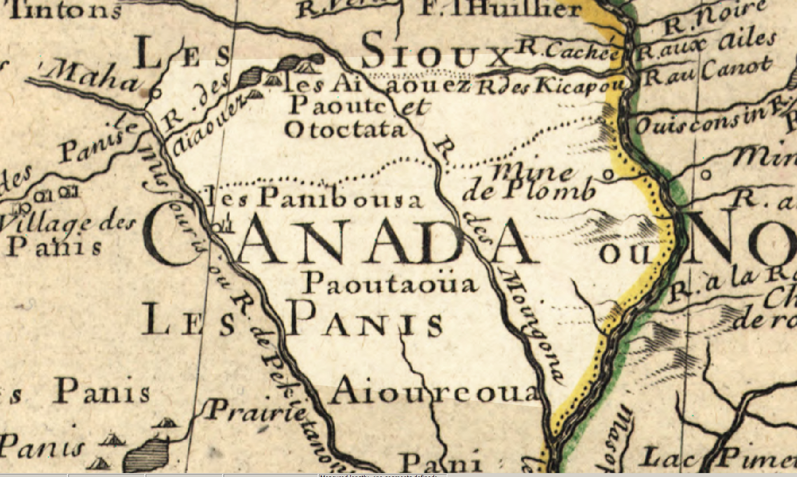 Iowa 1798, approximate state area highlighted, from Carte du Mexique et des Etats Unis d'Amérique by Philippe Bauche.